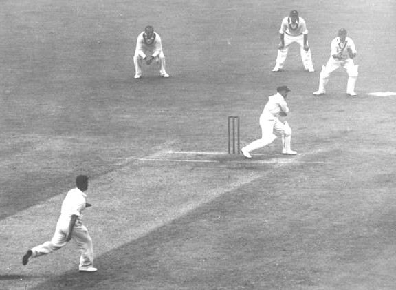 Image of Bradman batting against England during the 1936-37 season. From the National Library of Australia, accessed at Public domain. This image is of Australian origin and is now in the public domain because its term of copyright has expired. According to the Australian Copyright Council (ACC), ACC Information Sheet G023v17 (Duration of copyright) (August 2014).3 Type of materialCopyright has expired if … A Photographs or other works published anonymously, under a pseudonym or the creator is unknown: taken or published prior to 1 January 1955BPhotographs (except A): taken prior to 1 January 1955CArtistic works (except A & B): the creator died before 1 January 1955DPublished editions1 (except A & B): first published more than 25 years agoECommonwealth, State or Territory owned2 photographs and engravings: taken or published more than 50 years ago 1 means the typographical arrangement and layout of a published work. eg. newsprint. 2 owned means where a government is the copyright owner as well as would have owned copyright but reached some other agreement with the creator. 3 Copyright Amendment (Disability Access and Other Measures) Bill 2017 (Australian Government) When using this template, please provide information of where the image was first published and who created it.